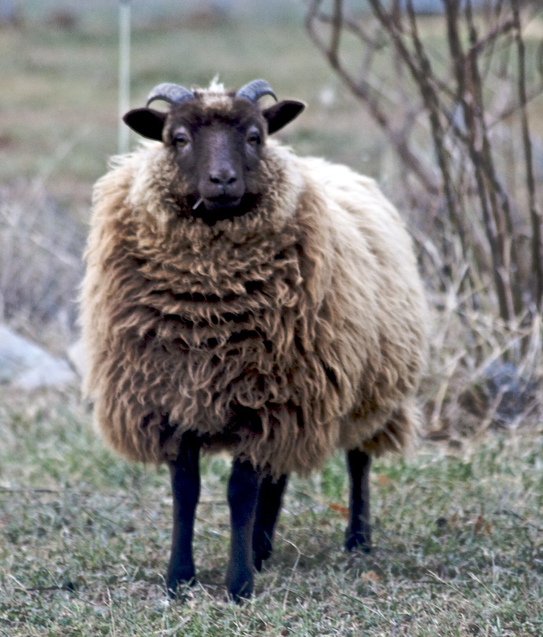 A moorit-colored Shetland sheep